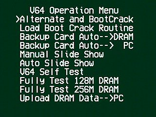 The onscreen main operation menu for a Doctor V64 device